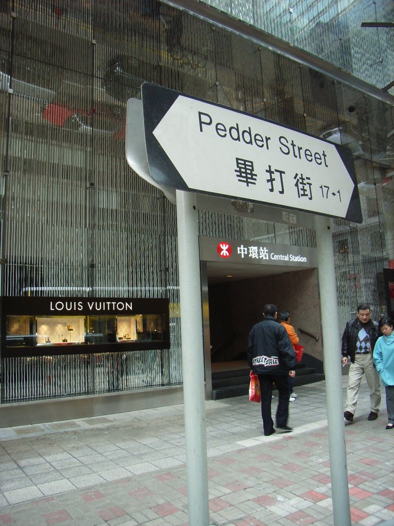 LV shop & MTR Central Station in Pedder Street, Central, HK by ShingWong